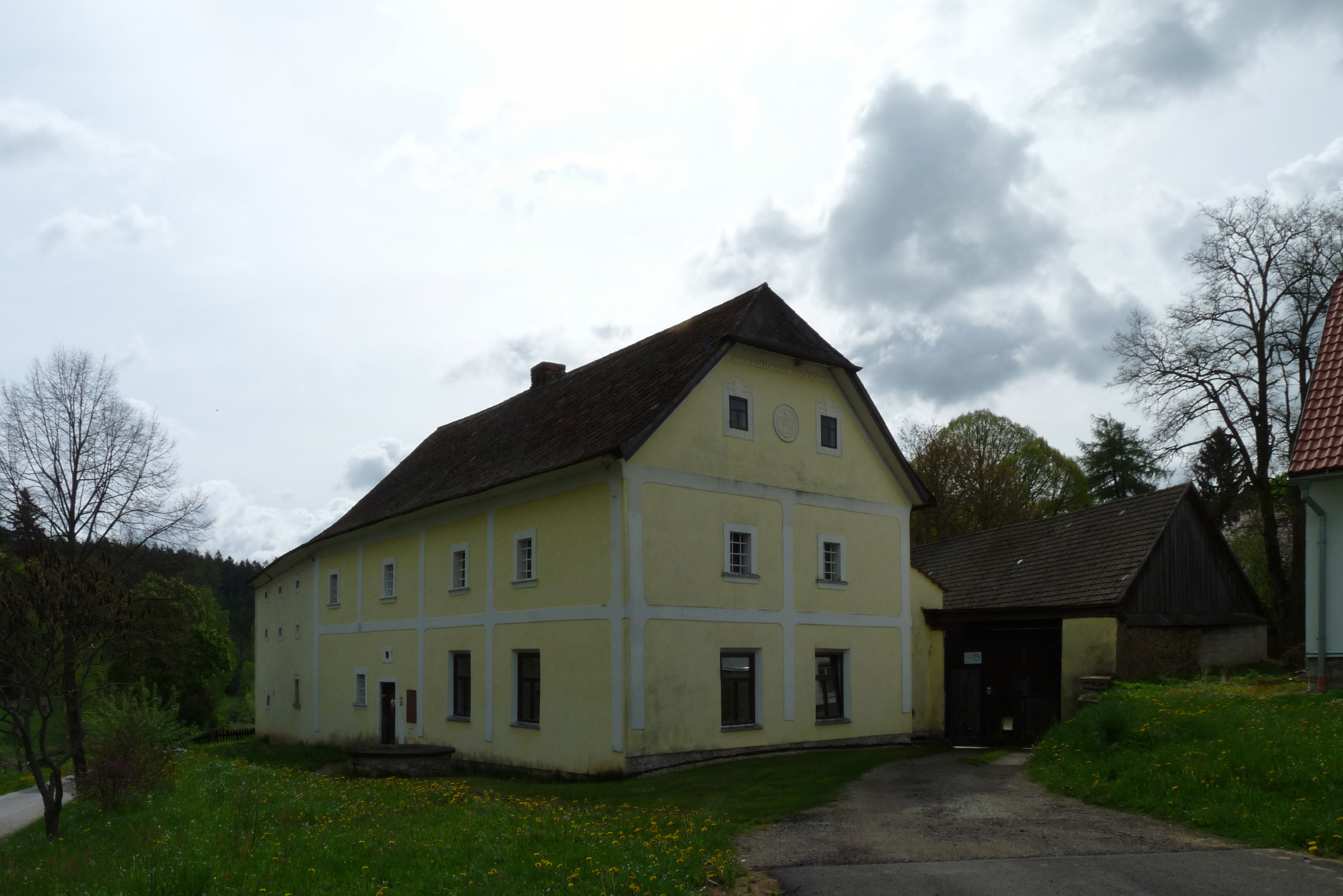 House No 13 in the village of Mutyněves, Jindřichův Hradec District, South Bohemia, Czech Republic.